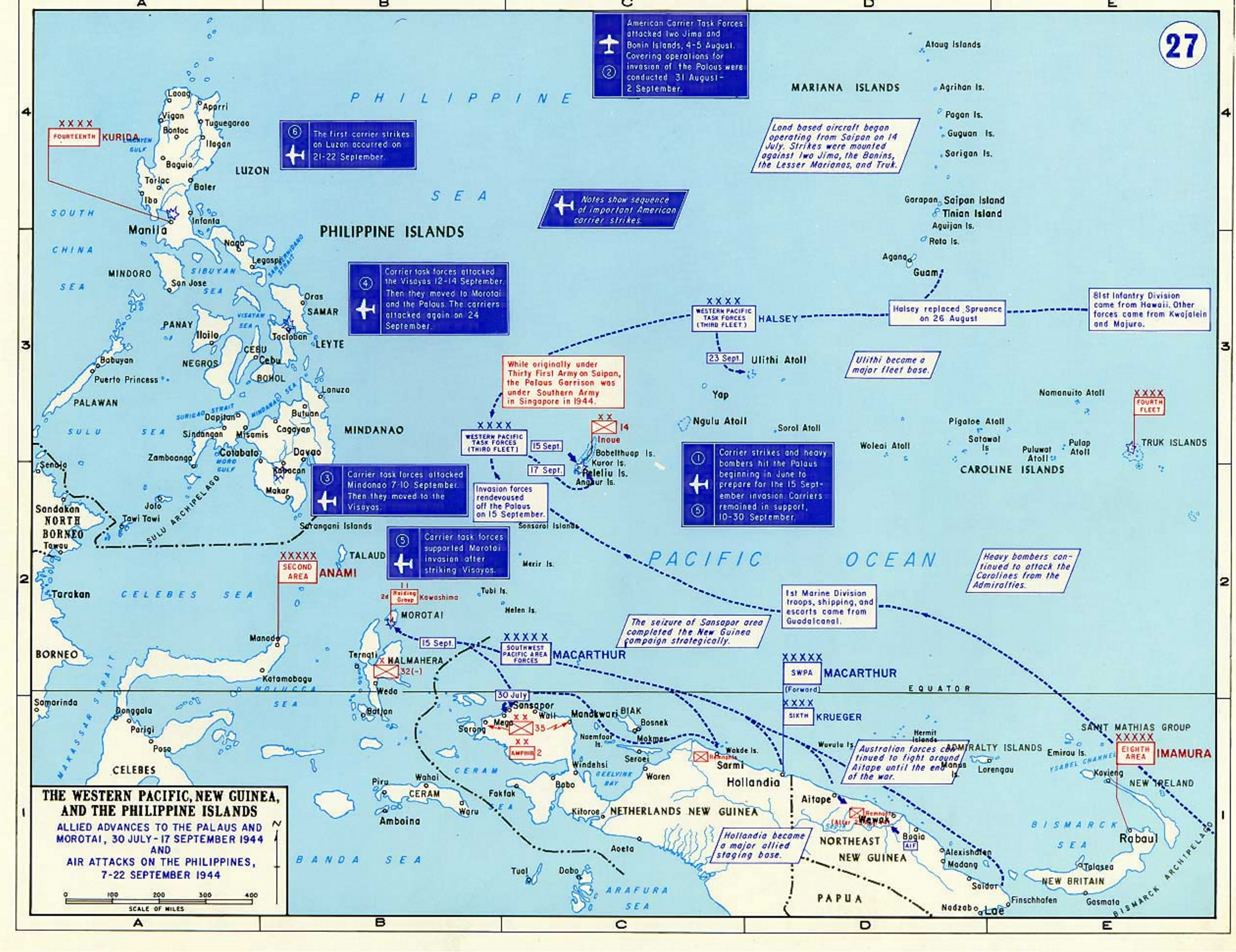 The Allied Advance in The Western Pacific, New Guinea And The Philippine Islands